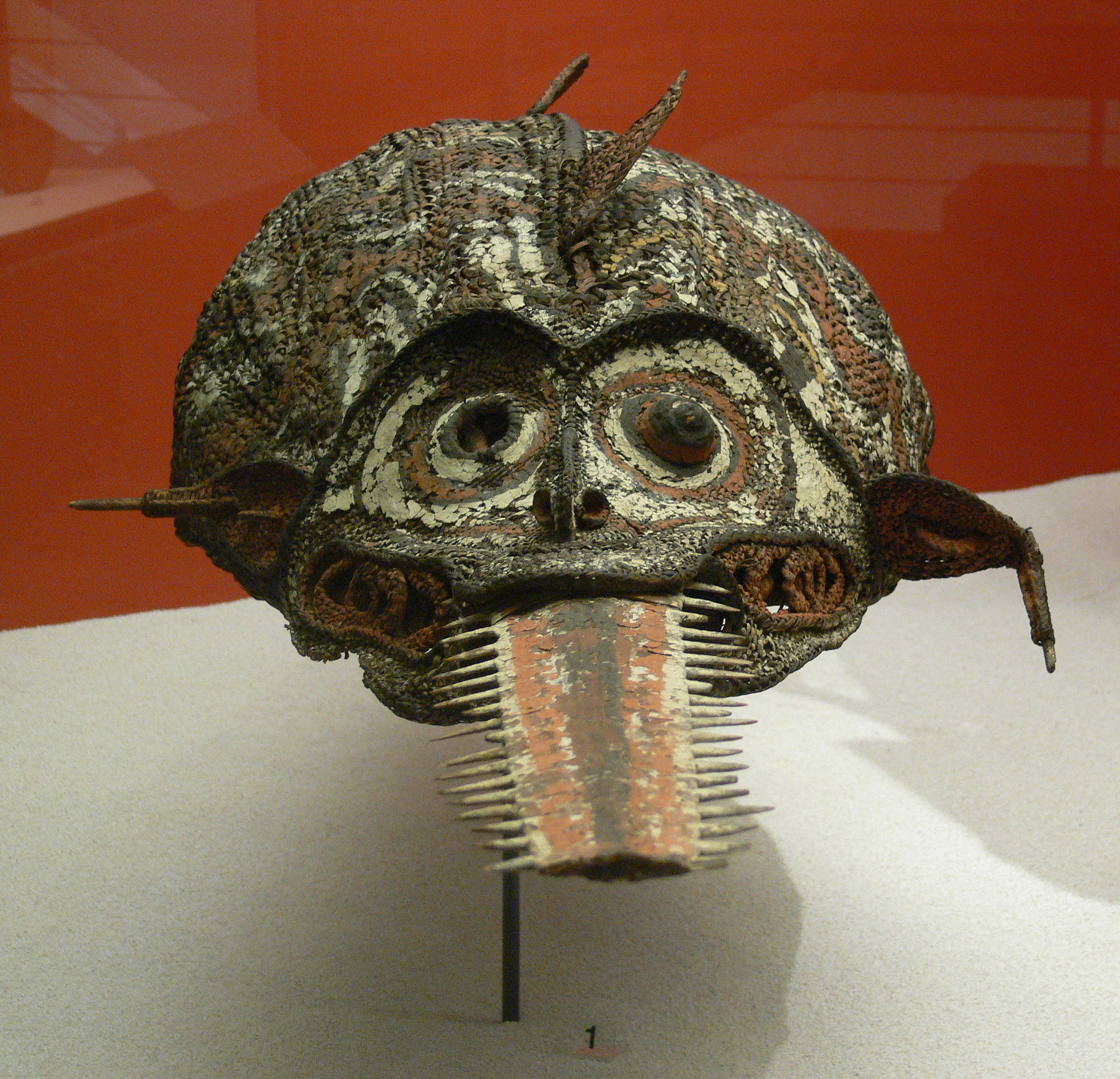 Mask depicting a sawfish. Kararau, middle Sepik River area, New Guinea. Ethnological Museum, Berlin-Dahlem (from the „Sepik expedition“, 1912/1913.)